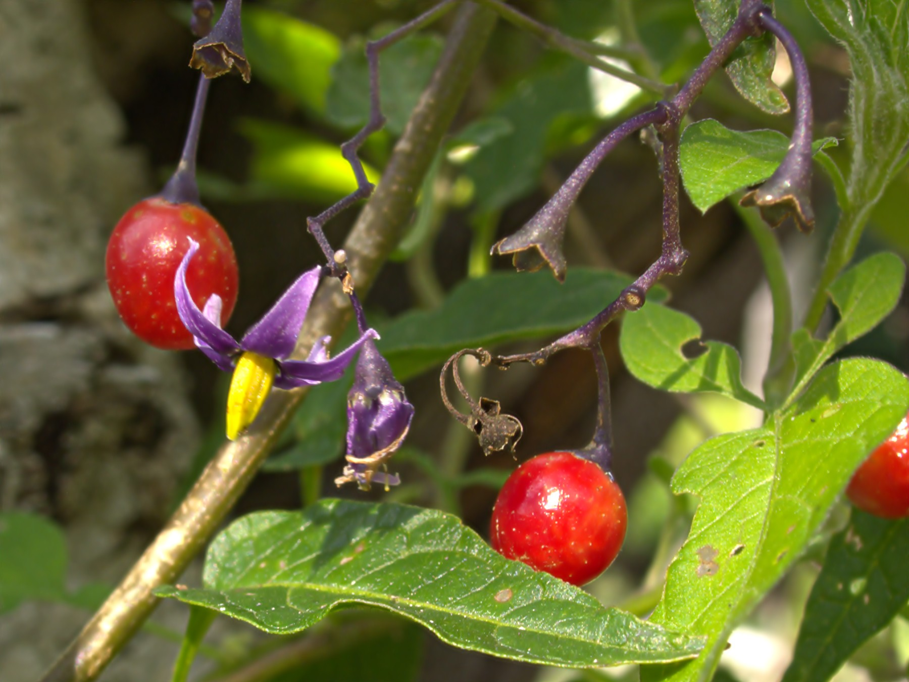 Name: Solanum dulcamara (in a swamp). Close-up of bittersweet fruits and flower. Location: Münster, NRW, Germany